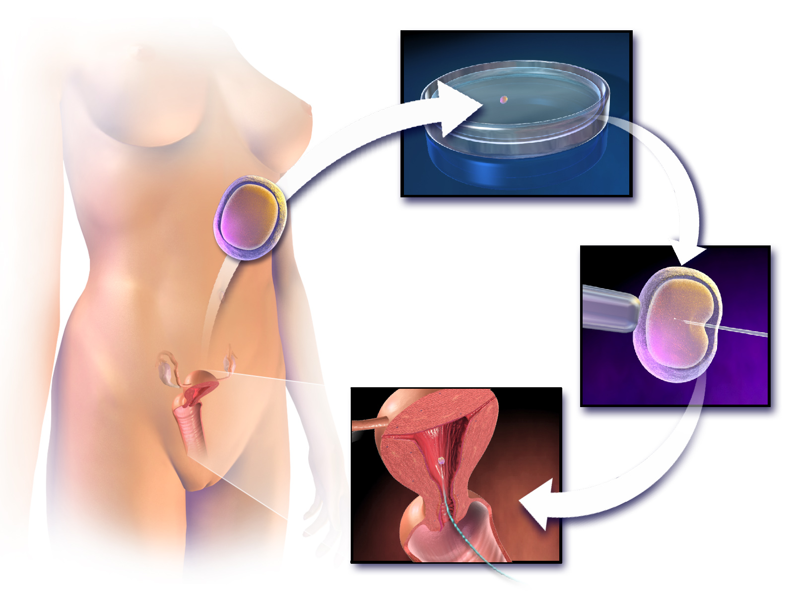 Assisted Reproductive Technology. See a related animation of this medical topic.